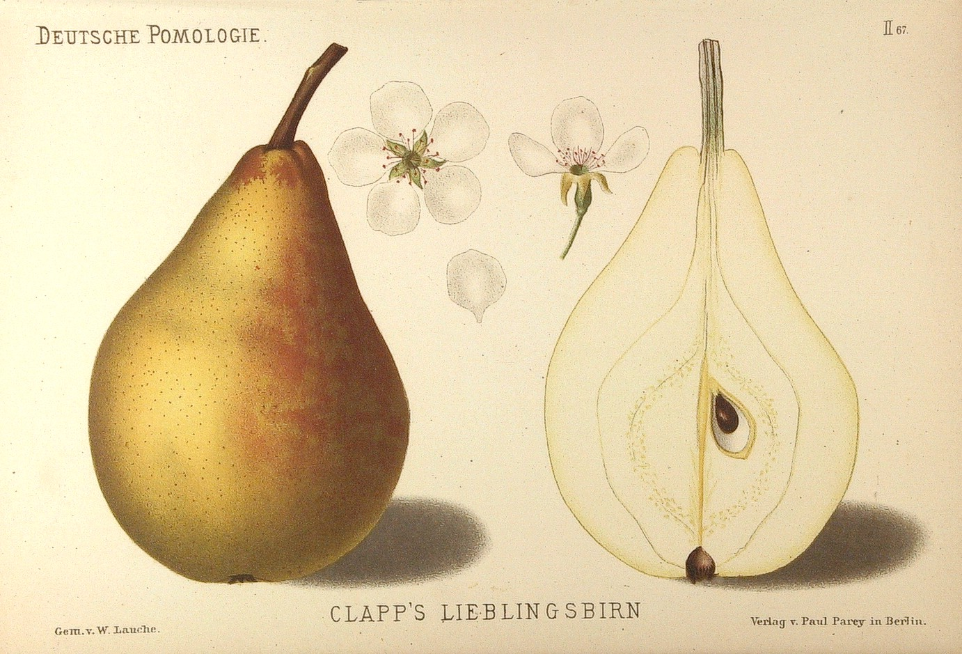 Page 67 from Deutsche Pomologie — Birnen, by Wilhelm Lauche, 1882. Published by Deutsche Pomologen-Vereins (German Pomological Society). Part of a series from the same book. The others can be found in Category:Deutsche Pomologie - Birnen Depicted pear cultivar: Clapp's Lieblingsbirn